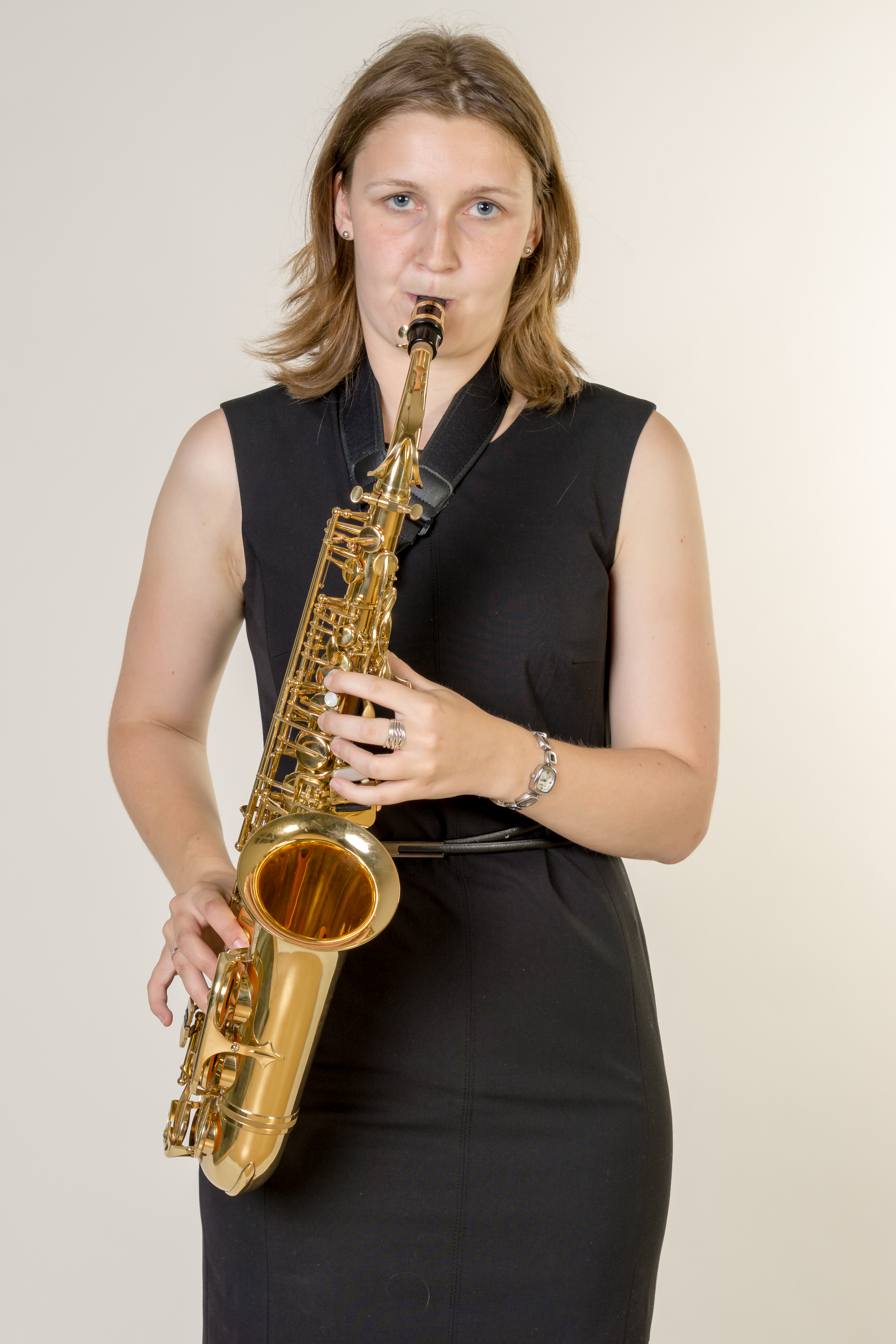 Wiki loves Music - Hamburg 2017: Musical Instruments up close. Saxophone